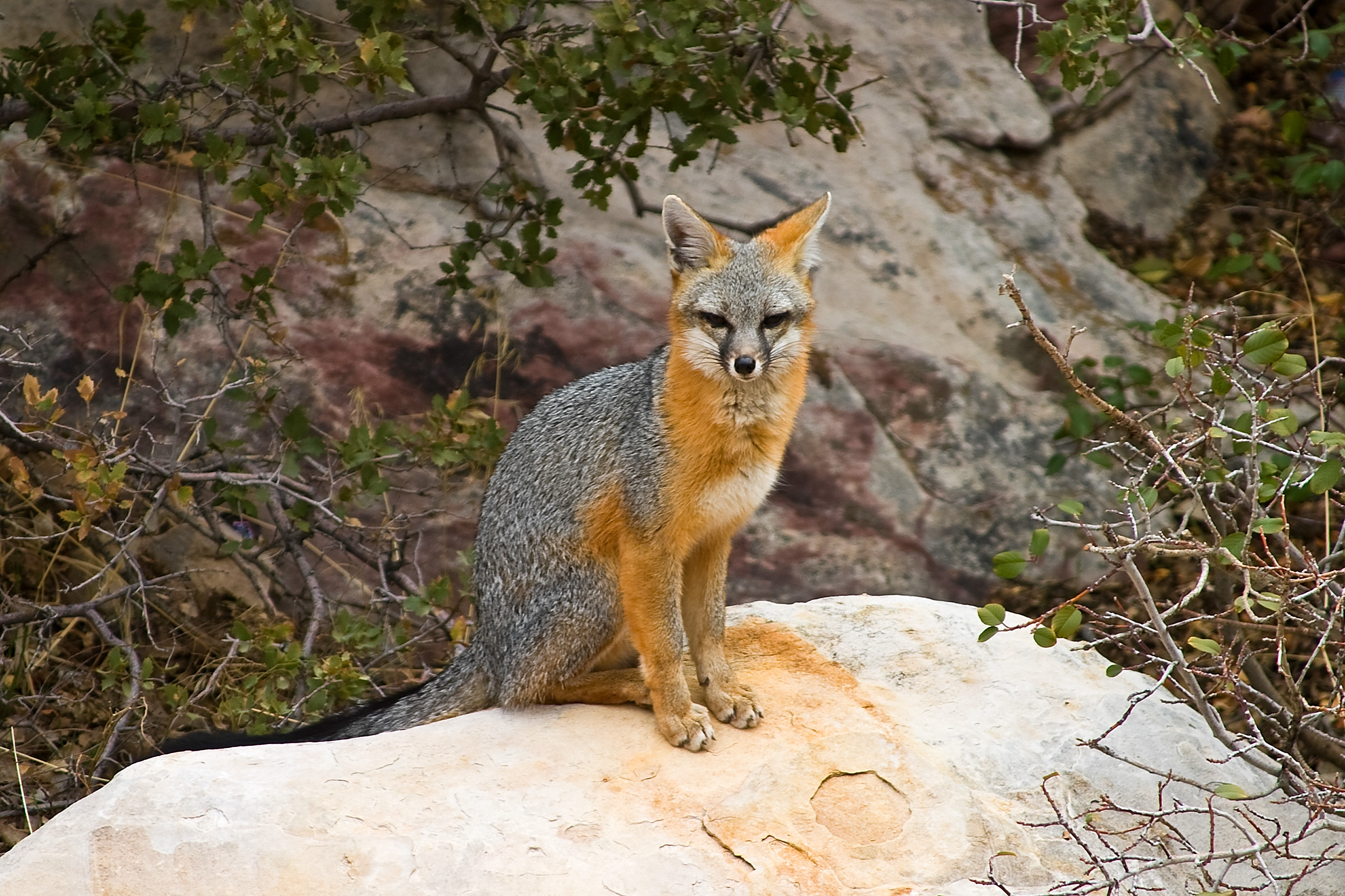 Gray Fox (Urocyon cinereoargenteus ). In Red Rock Canyon, Clark County, southern Nevada. He didn't seem to worried about me being around, he was watching a group of birds in the nearby trees. Credits To view this photo larger or view purchase information click here.